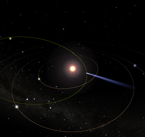 The orbit (green) of Comet McNaught on 14 Jan 2007 and the four orbits (orange) of the inner planets. Earth is the blue dot on the right. The Milky Way Galaxy can be seen on the lower left. (Created by StarryNight Pro)